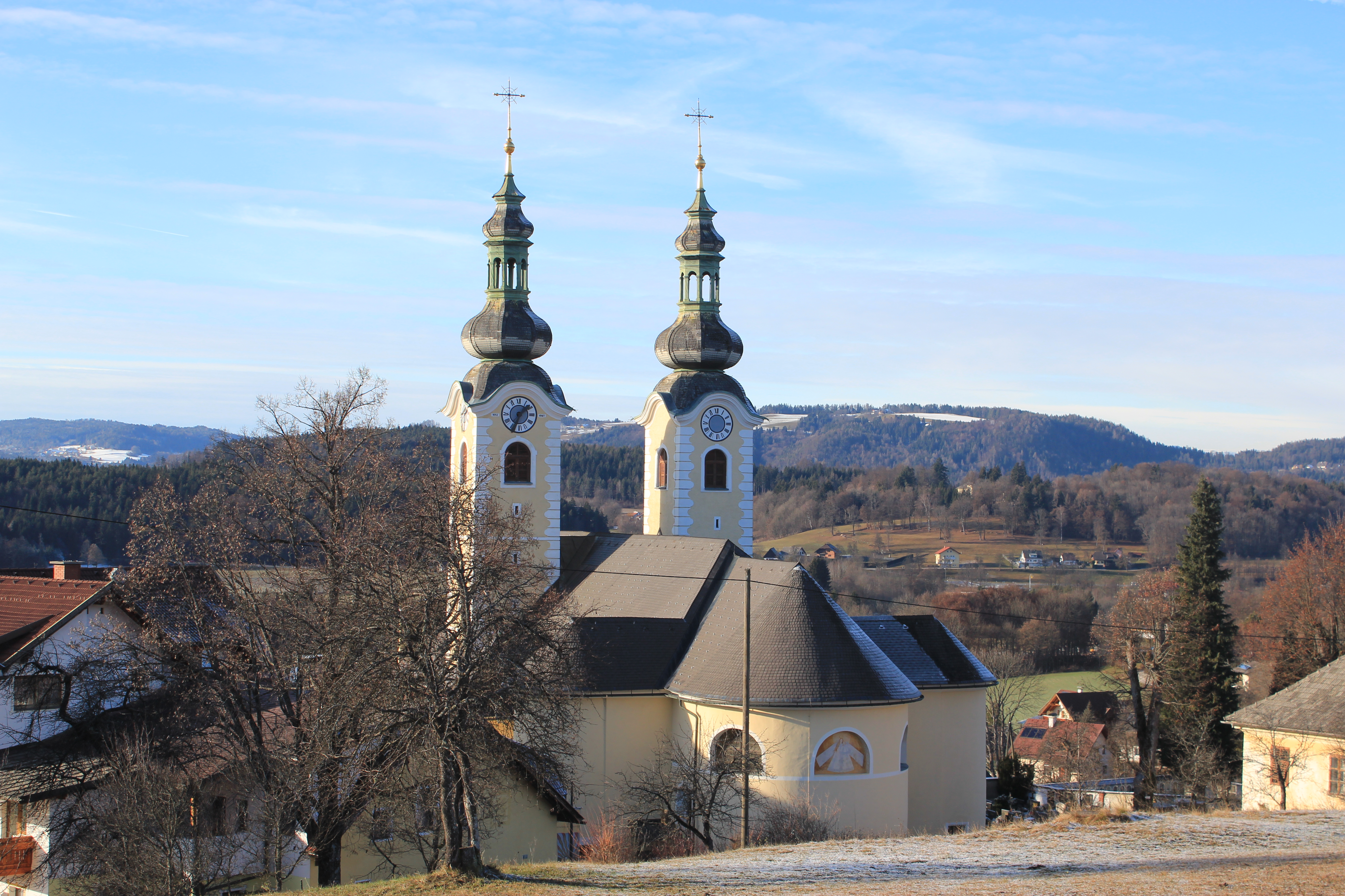 Pilgrim and Parish church in Maria Rain